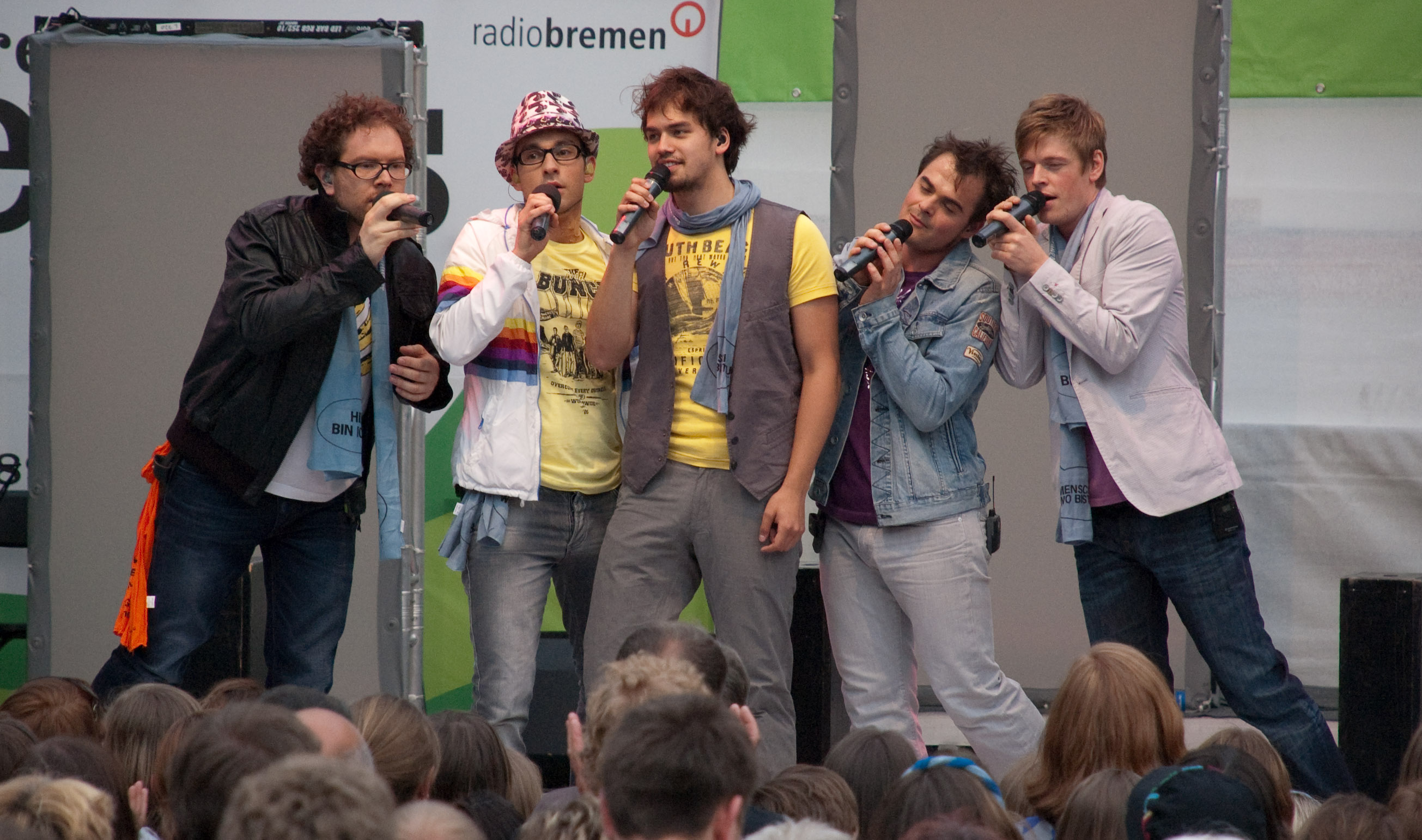 Viva voce in Bremen on the Kirchentag in Bremen